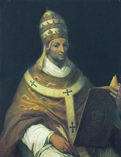 Portrait of pope John XXII